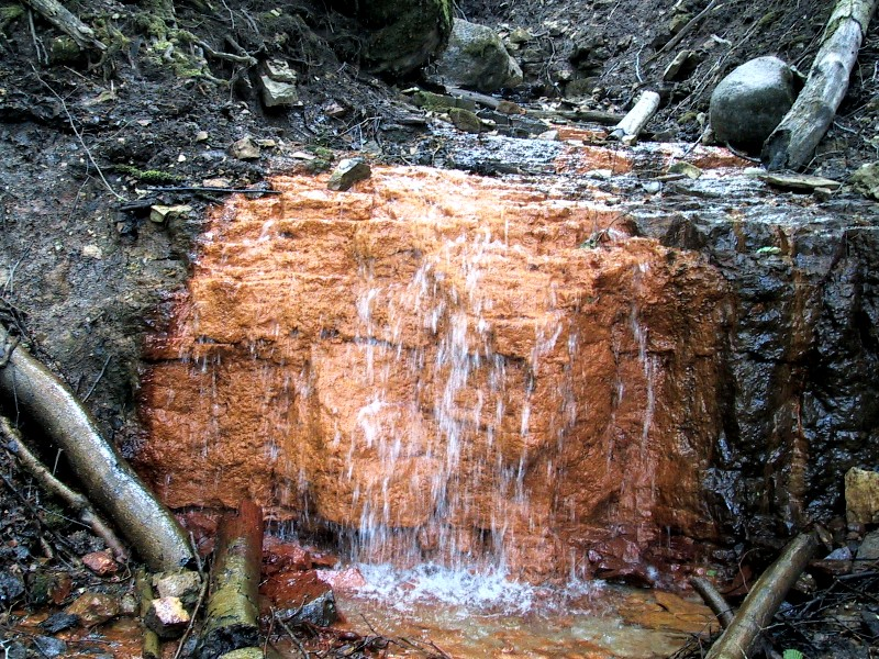 Dāvida dzirnavas, springs with iron-containing water, Cēsis district, Latvia, May 2001